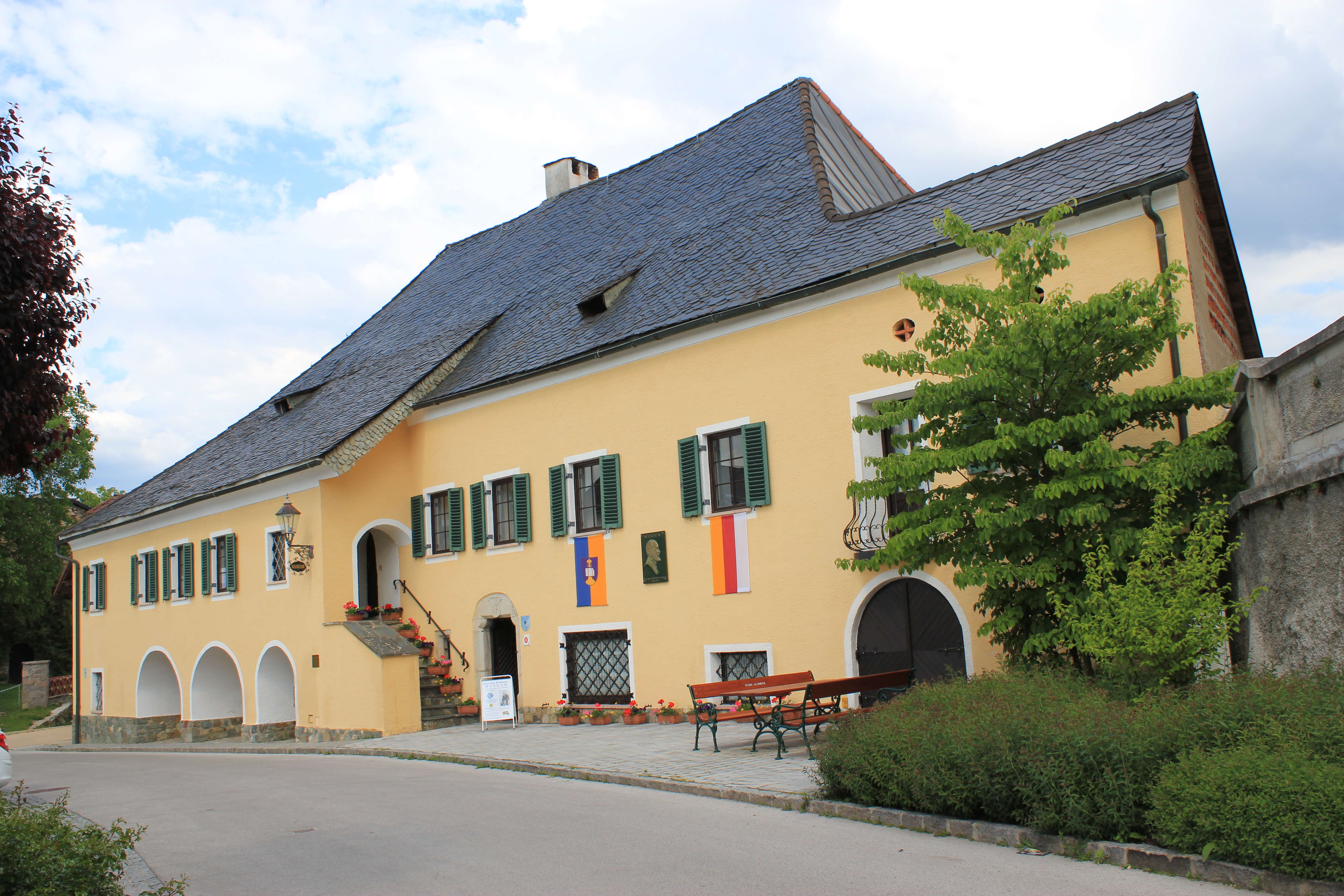 Auer-von-Welsbach-Museum in Althofen